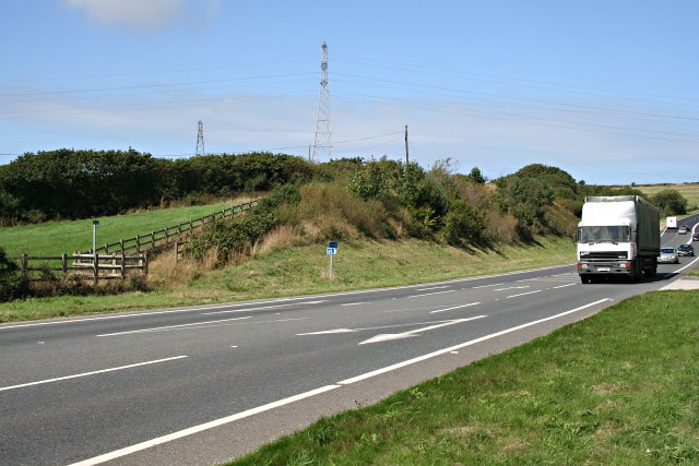 The A39 Road. This is a modern stretch of road, built in 1997.